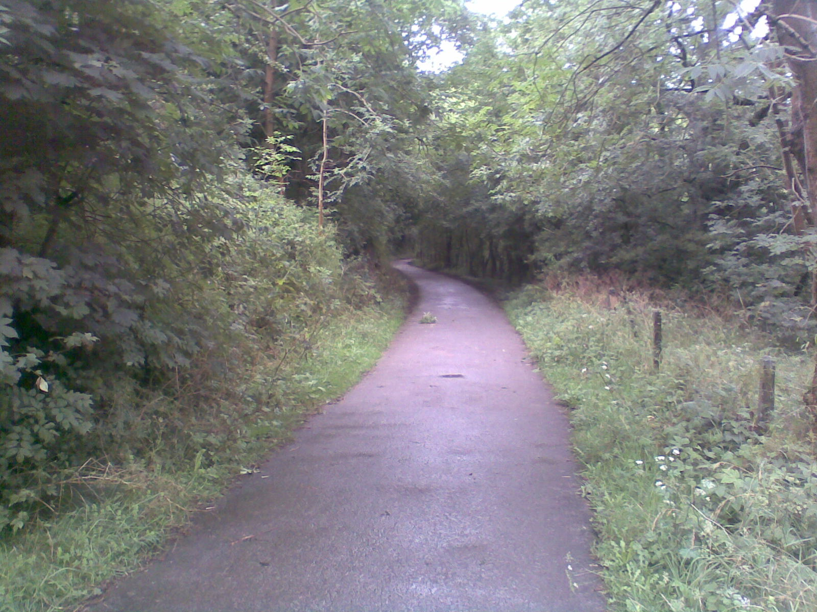 The Manifold Way near Wetton, looking north. Photo by me, released to Public Domain.